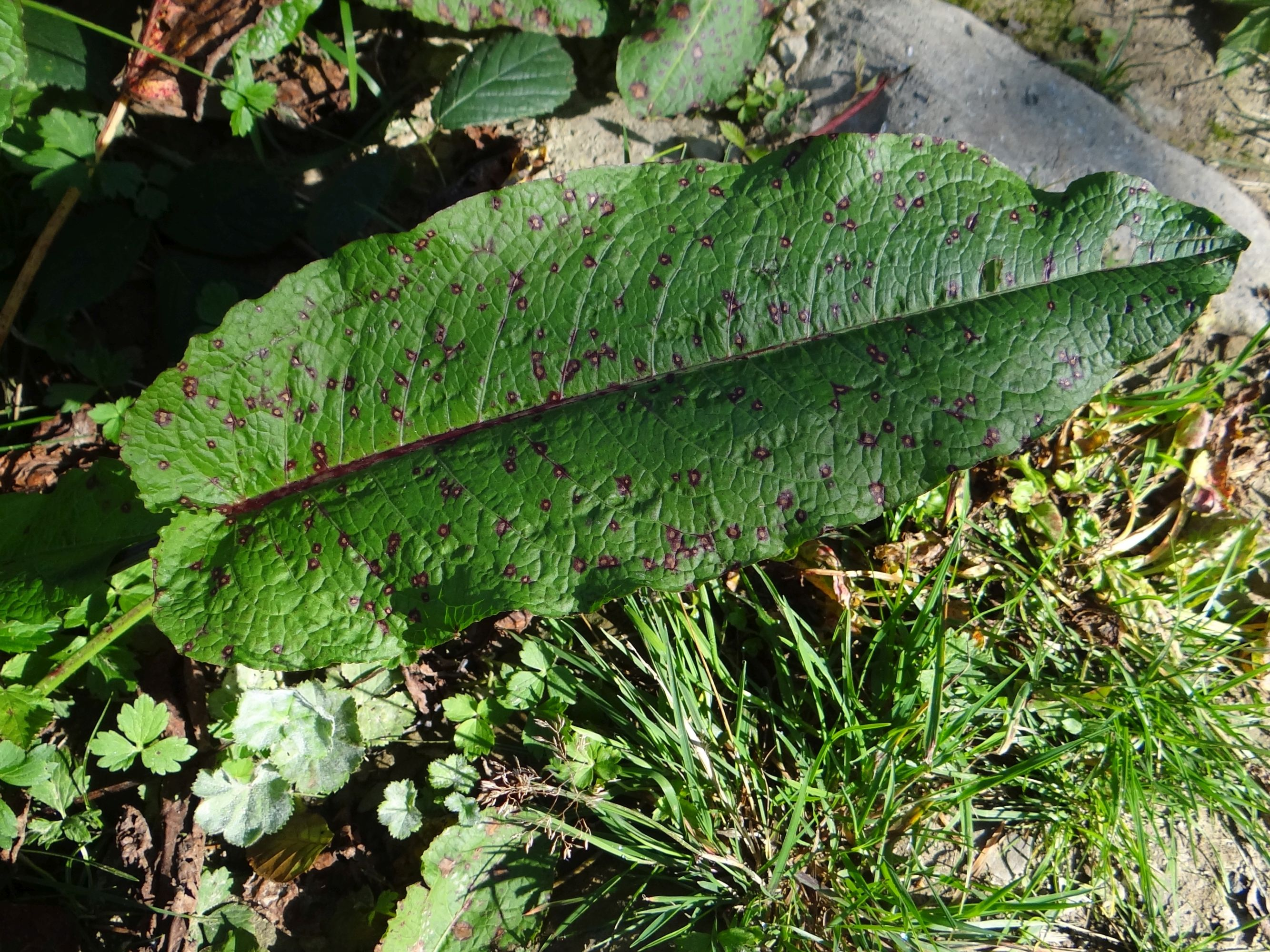 Ramularia rubella on Rumex crispus (location: Poland)